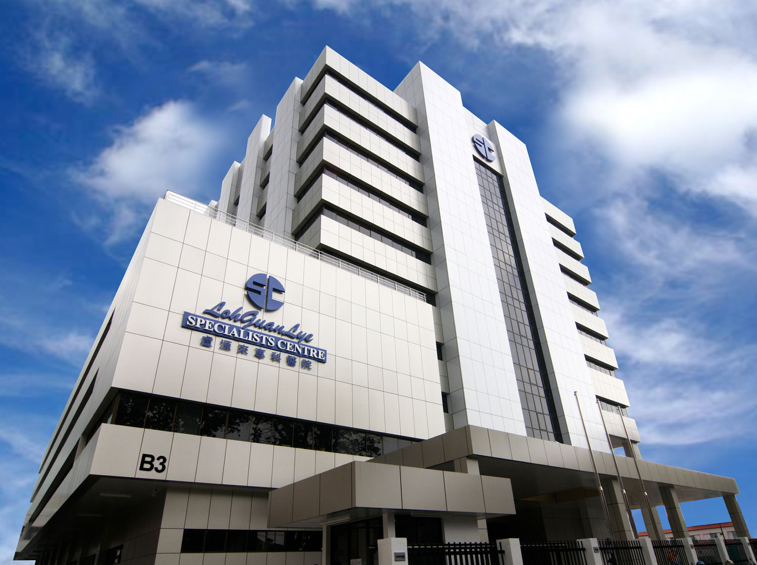 Loh Guan Lye SPECIALISTS CENTRE (15761-M) new wing in Penang. Visit for more information.